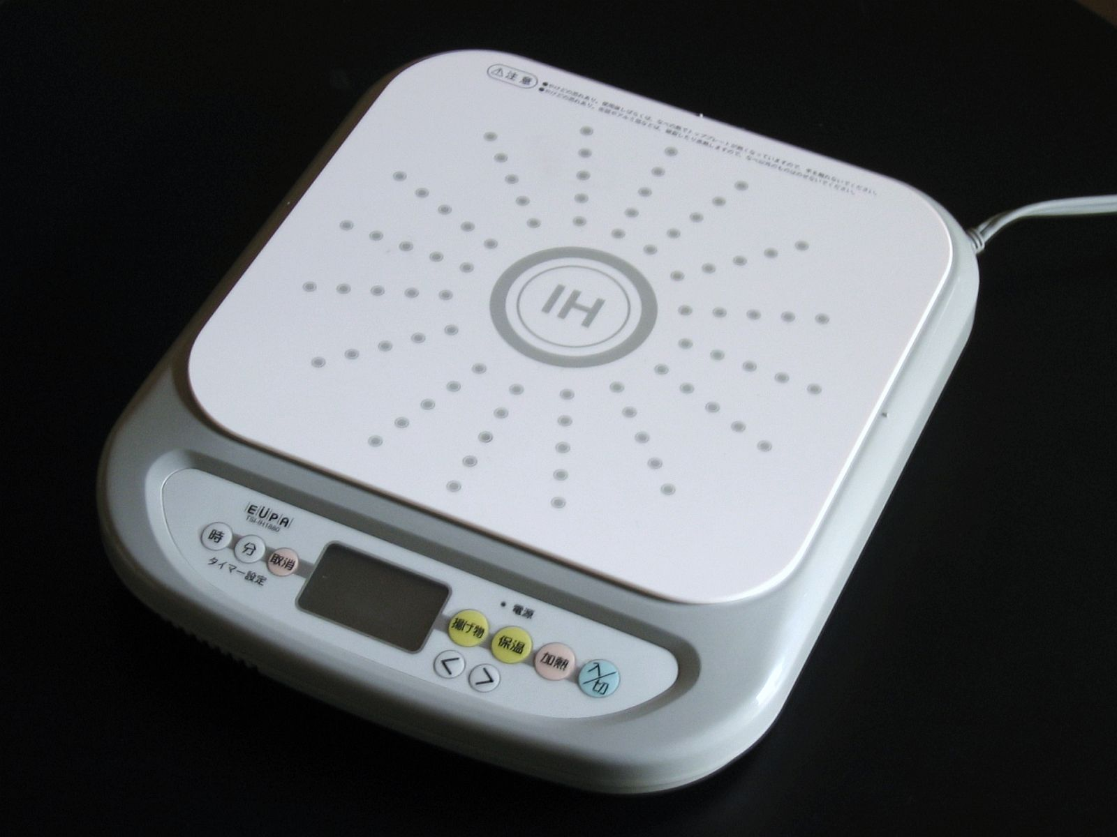 TSI-IH1880 is EUPA's Induction Cooktop.